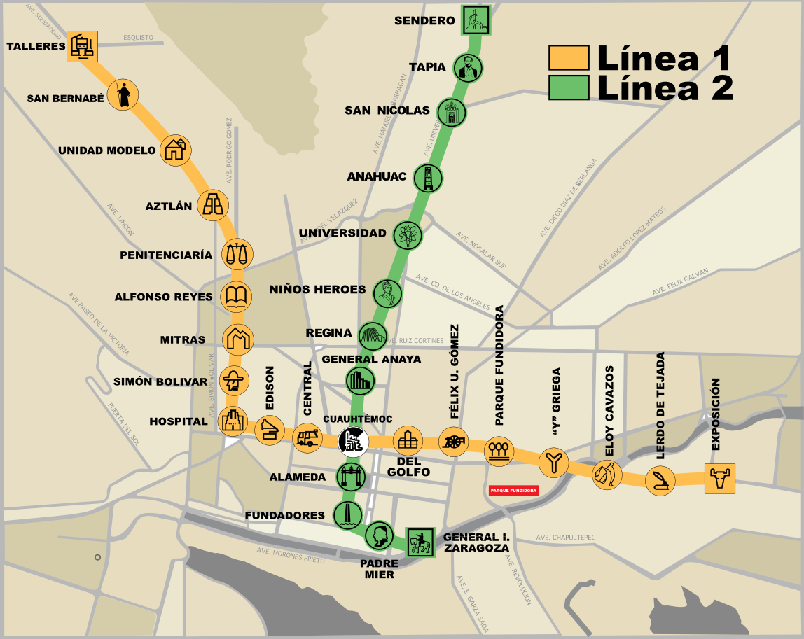 Monterrey Metro "Metrorrey" System Map